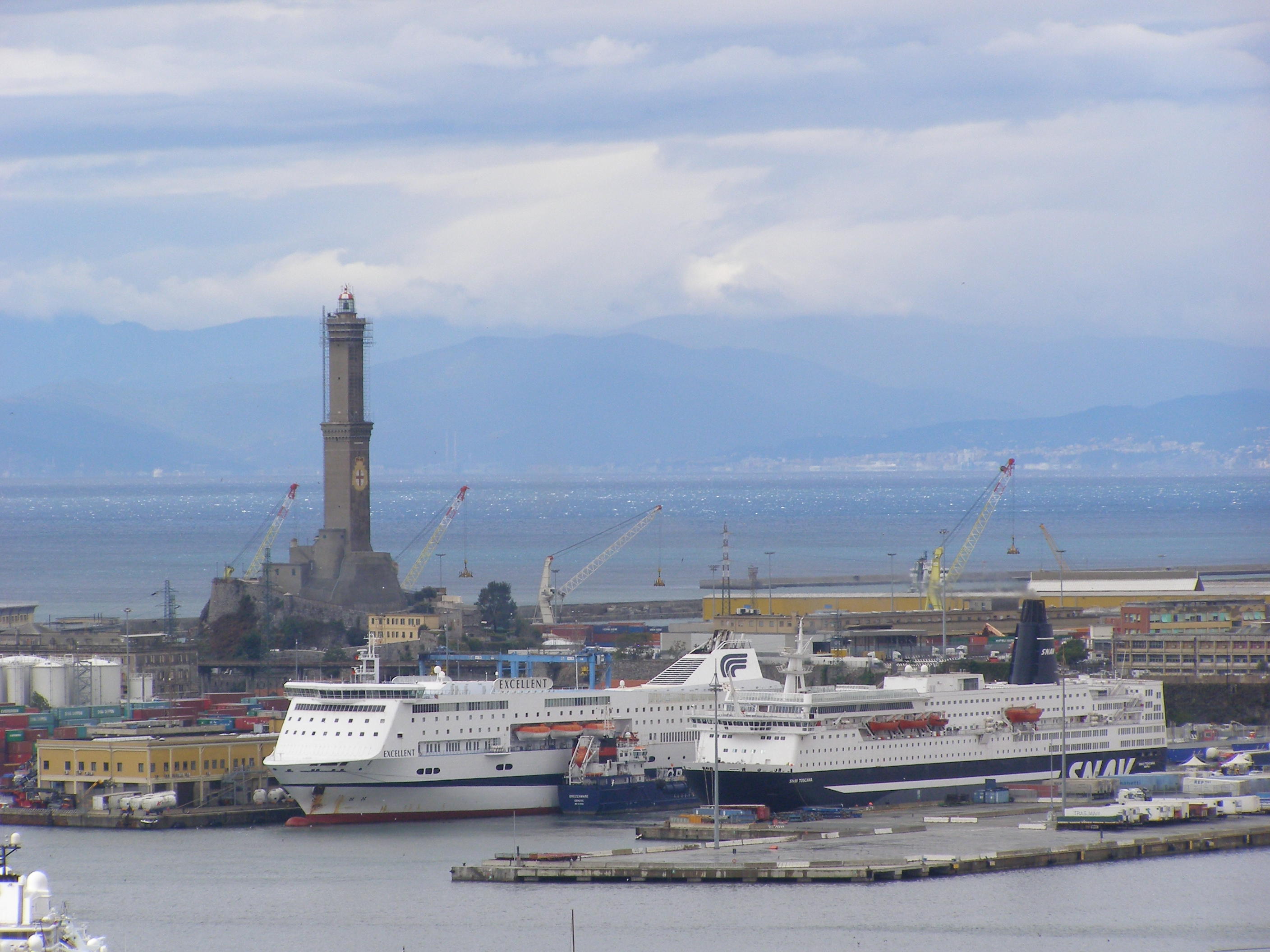 Genoa - view from Spianata Castelletto (Brezzamare between two ferries)